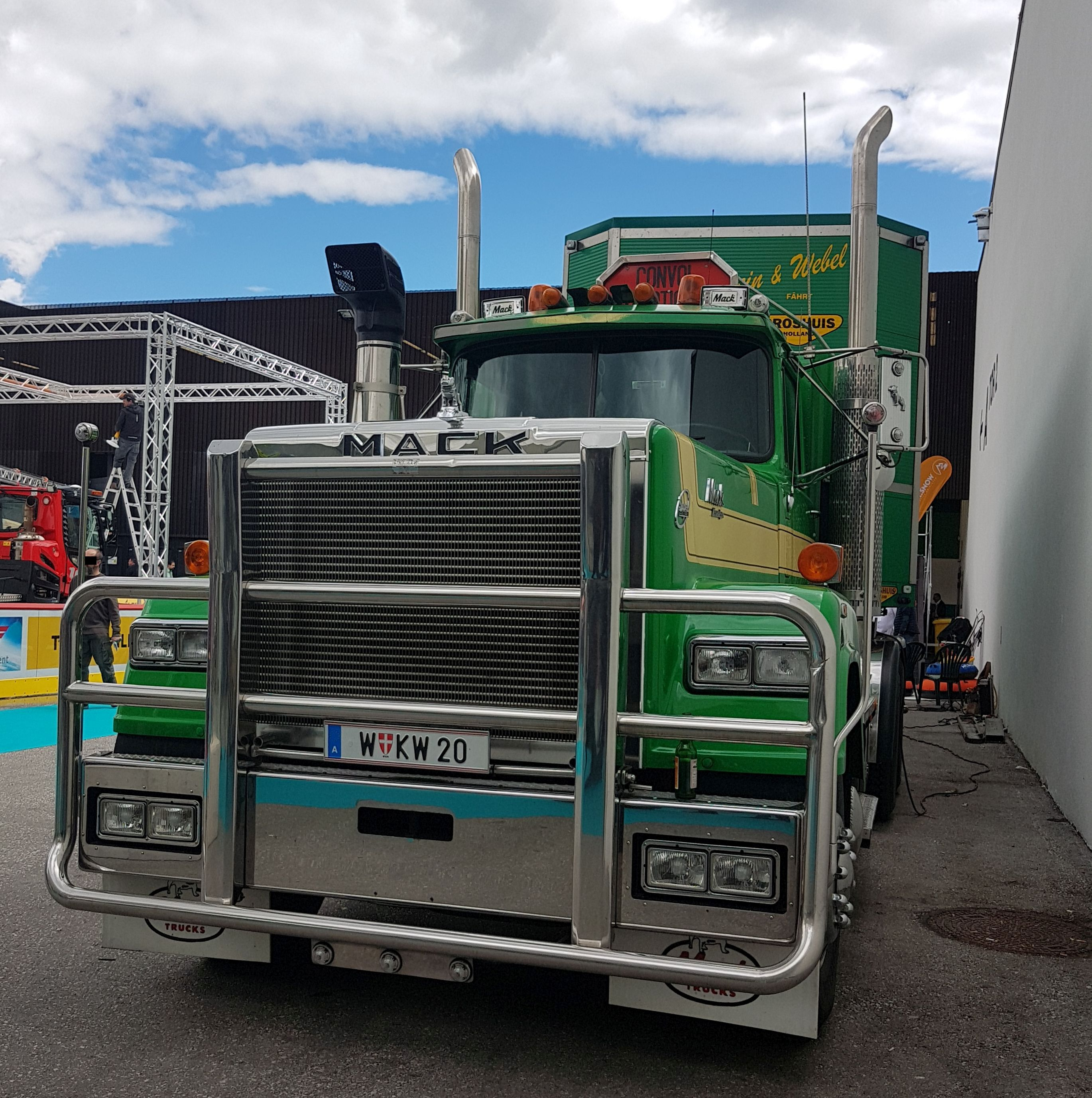 Mack Truck Super Liner Econodyne at the Interalpin, exhibition in Innsbruck in Tyrol, Austria. Net weight: 9130 kg, payload: 11800 kg, total weight: 21000 kg, length towing vehicle: 7.8 meters, width: 2.5 meters.